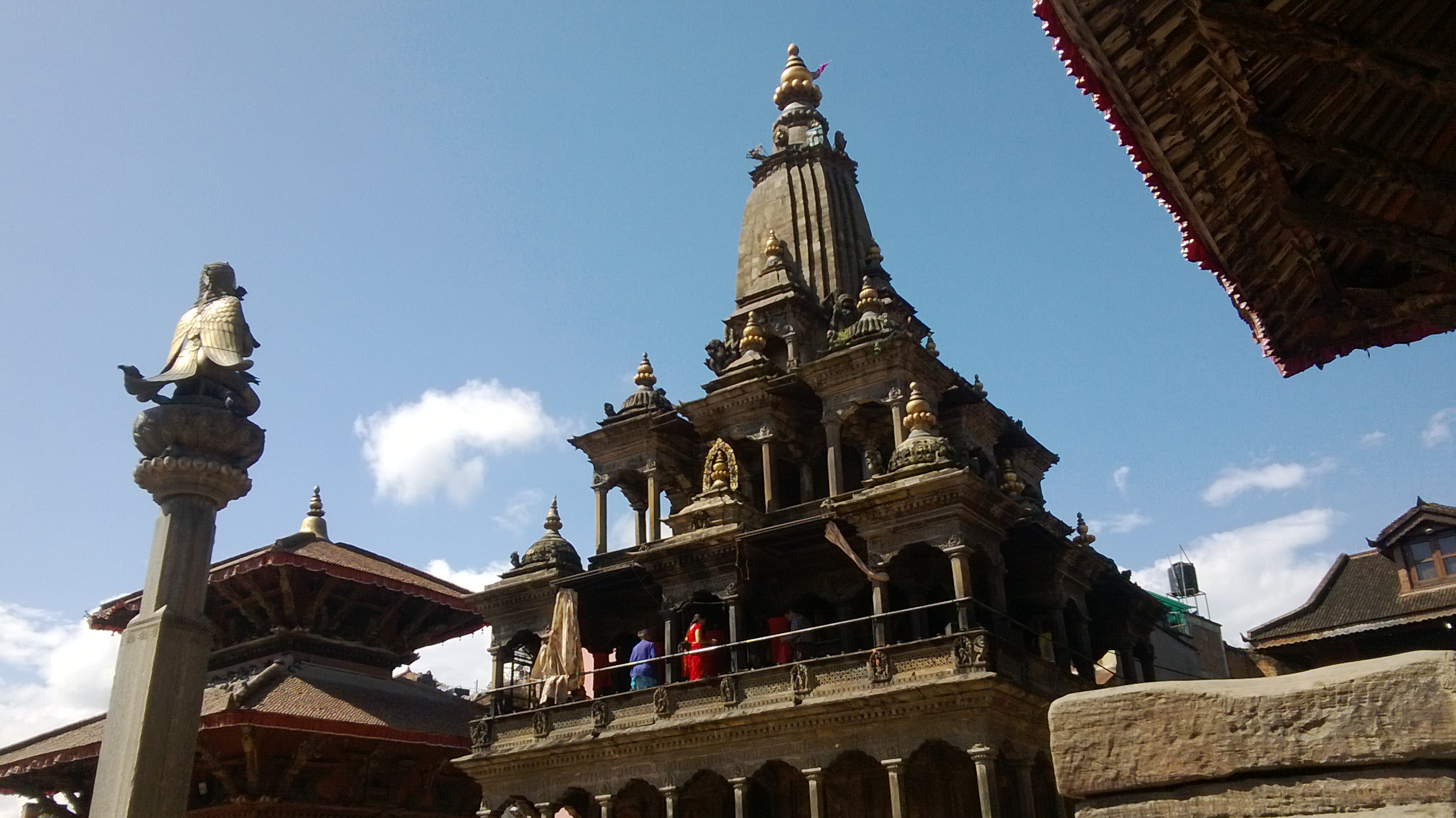 People worshiping lord Krishna in Nepal.